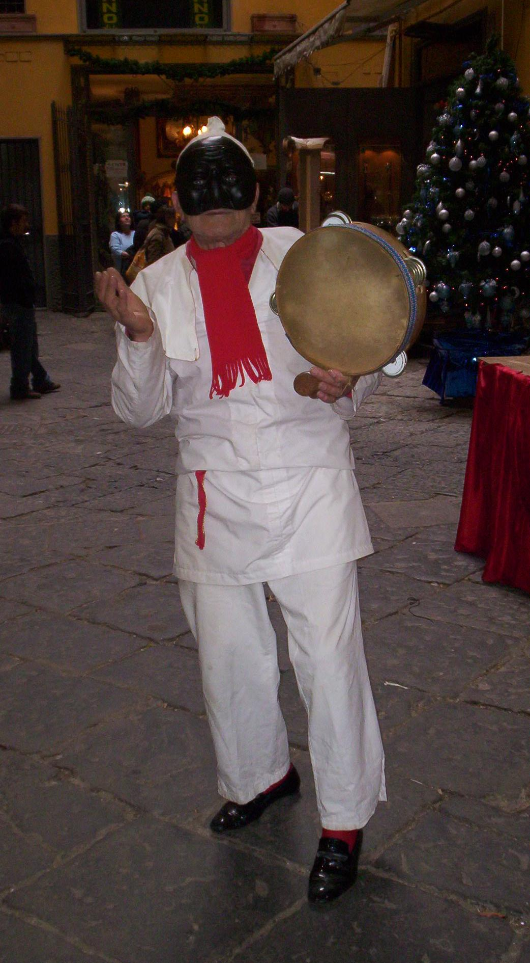 Pulcinella